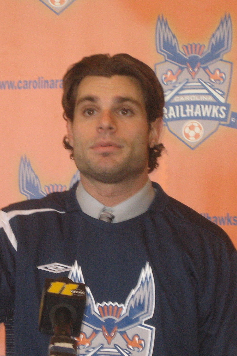 Photo of Chris Carrieri taken by Jonathan Hart at a Carolina RailHawks press conference on December 05, 2006.